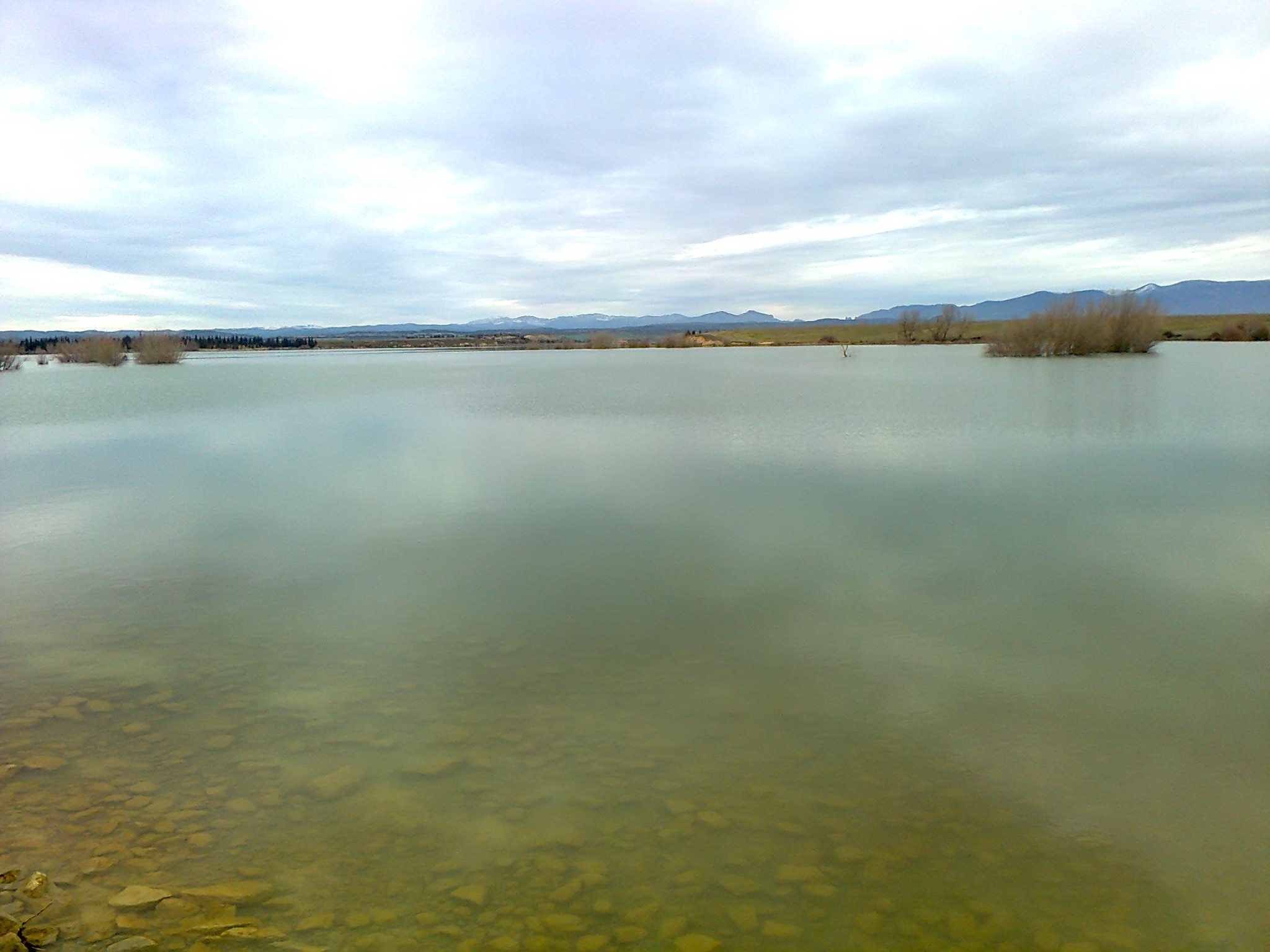 La Sotonera dam, Aragón, Spain